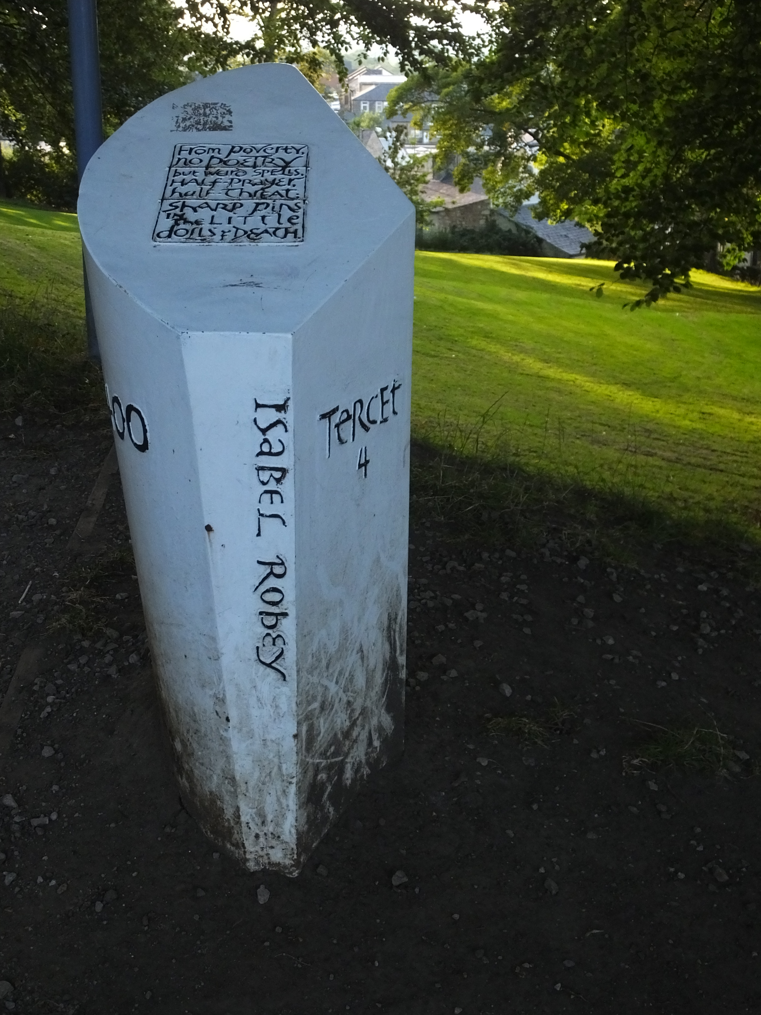 Clitheroe castle grounds , taken during the Wikimedia editathon at Clitheroe Castle